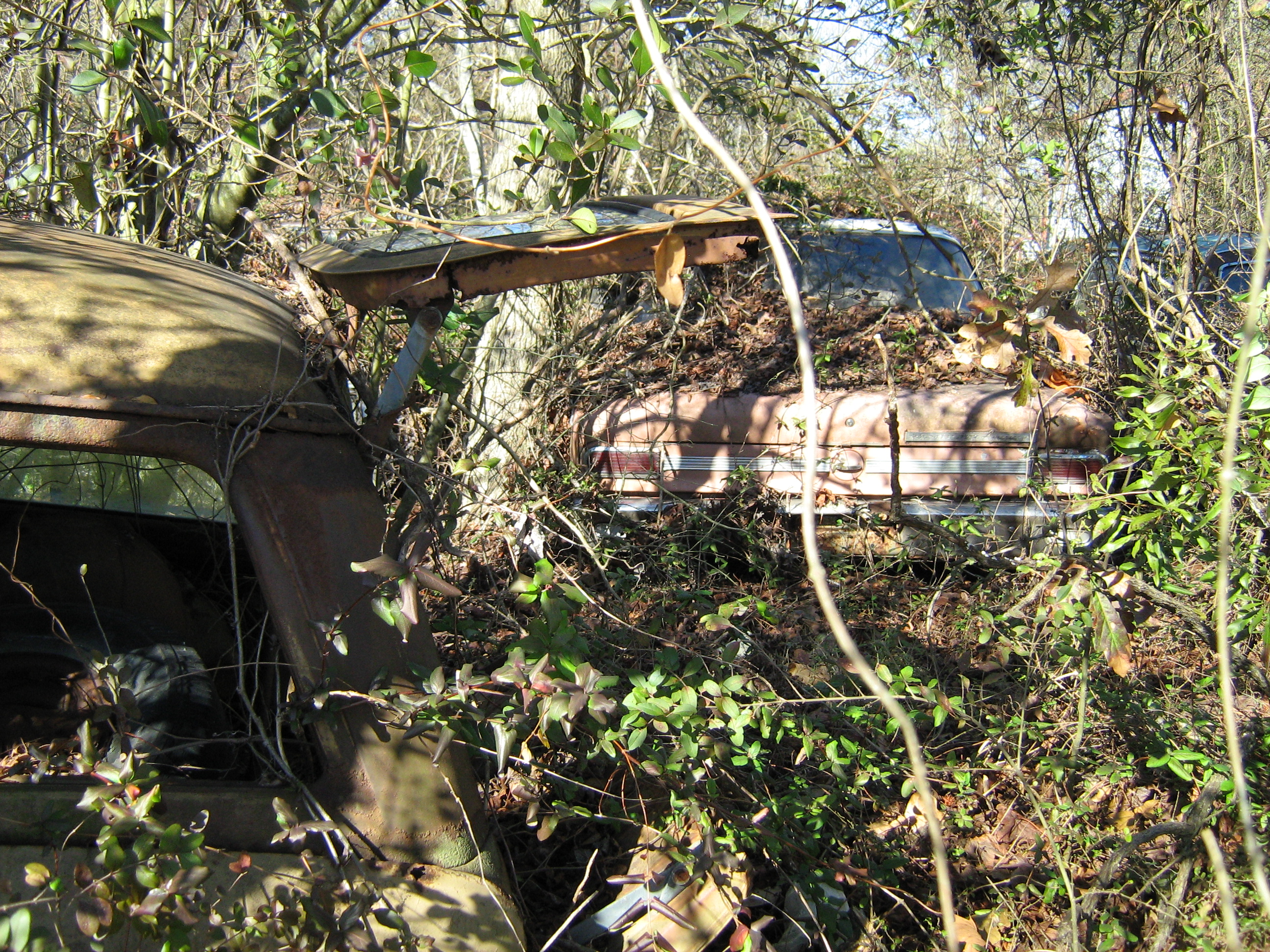 Overgrown with vegetation, a Rambler American (1964 or 1965) and part of a Nash Rambler wagon, both a part of the inventory located at Collier Motors, 4713 US-117 Hwy, Pikeville, NC 27863